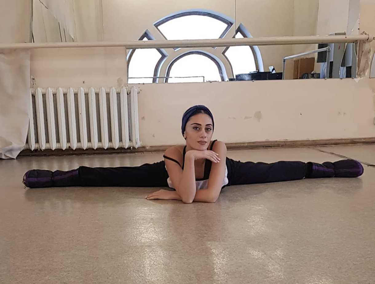 Ballet dancer